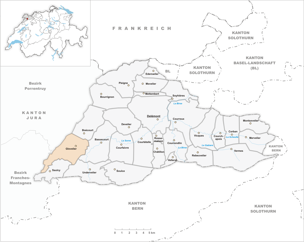 Municipality Glovelier